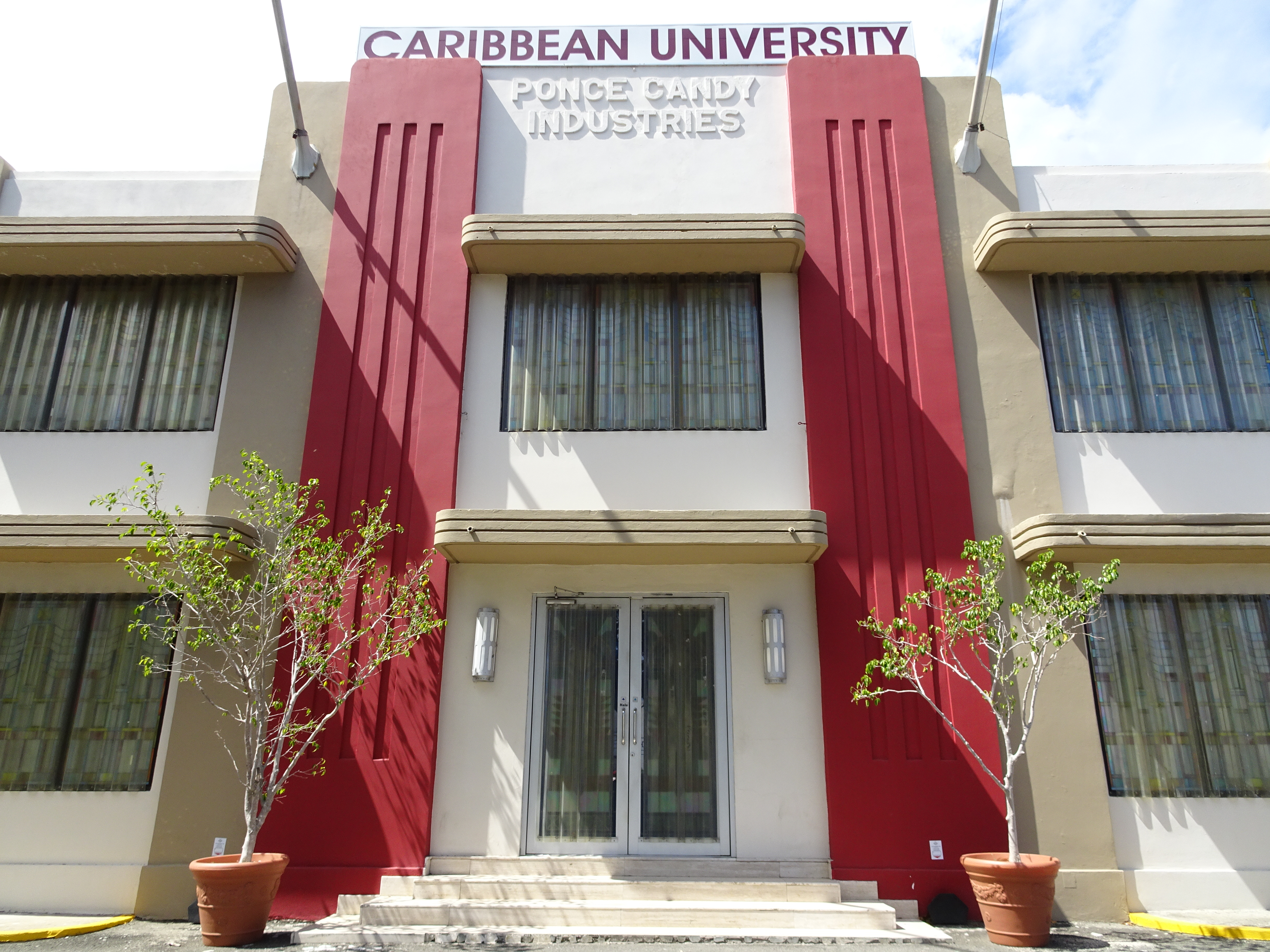 Edificio Ponce Candy Industries, Bo. Sabanetas, Ponce, PR, mirando hacia el norte (DSC00923)